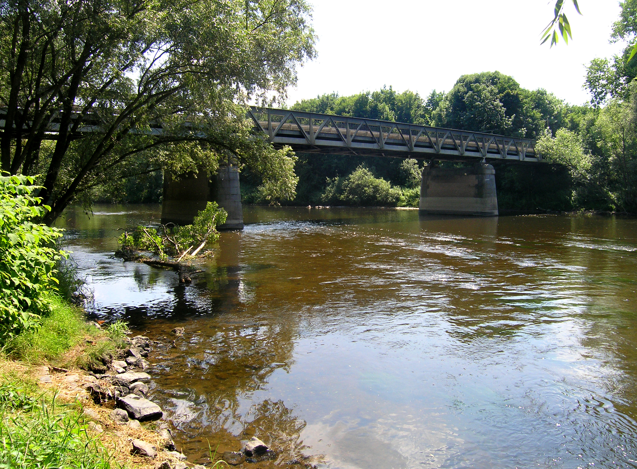 Ohře river by Budyně nad Ohří, Czech Republic